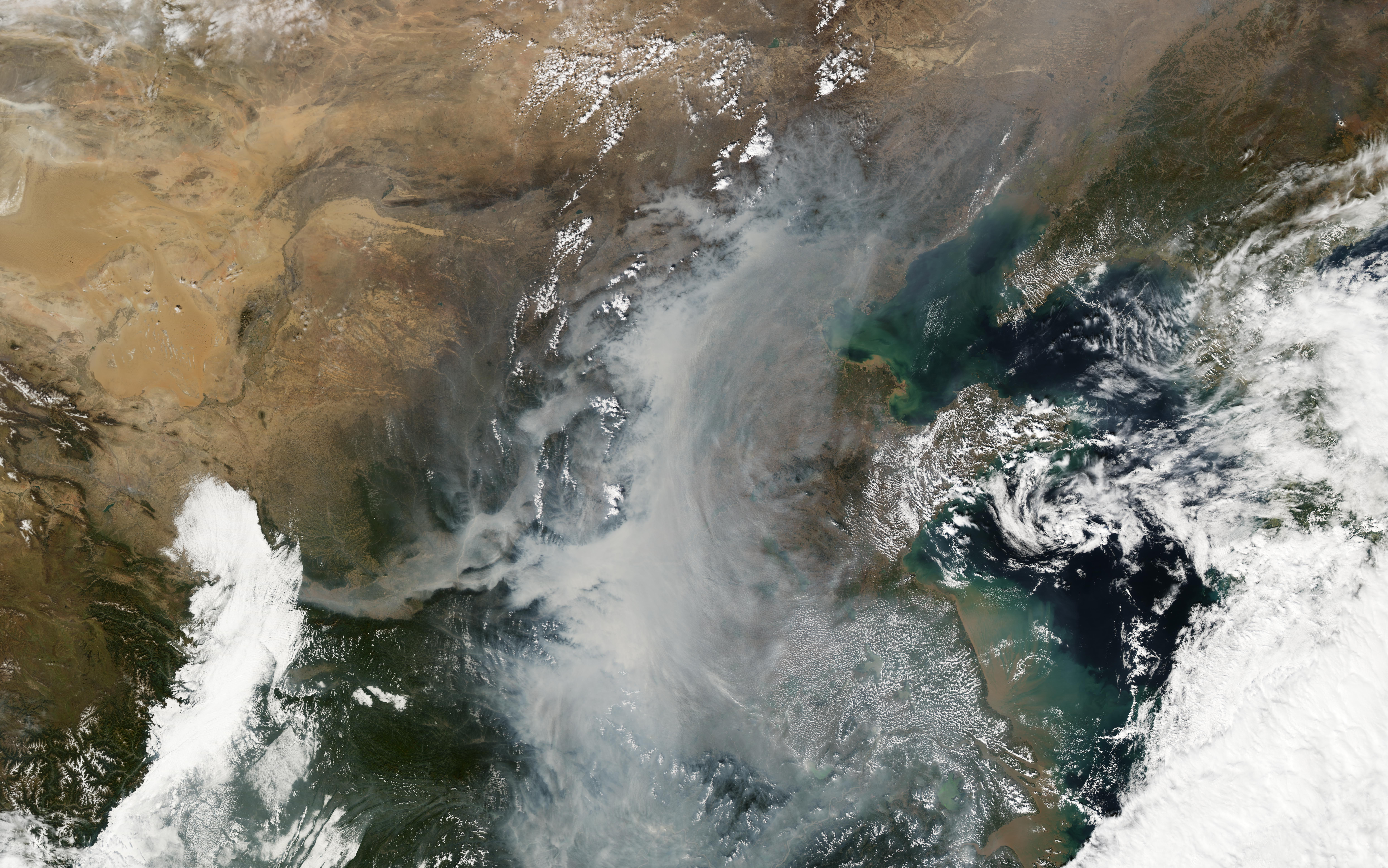 Natural colour satellite image of a smog event in China. The milky white and gray covering the centre of the image is smog and fog, while the brighter whites at the left and right edges are clouds.